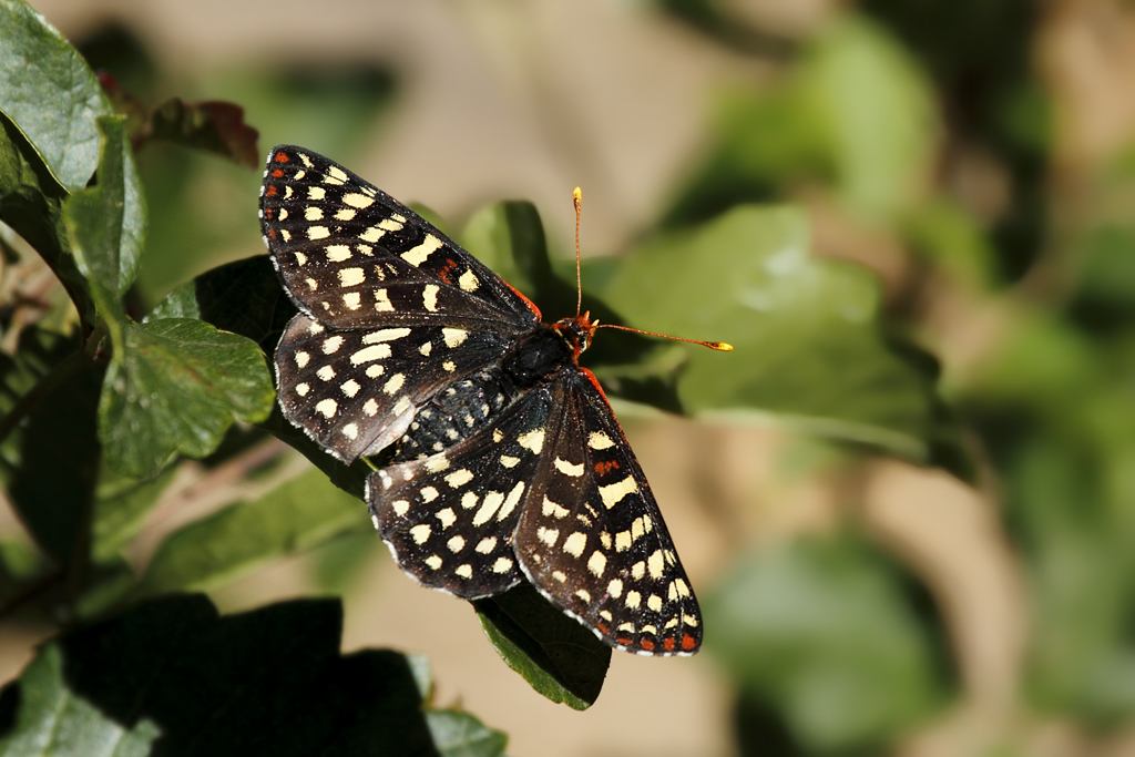 The Variable Checkerspot (Euphydryas chalcedona) is noted for the variablility in coloration of it's larvae and adult forms. It also has the name Chalcedon Checkerspot. Observed in the Coast range mountains of San Luis Obispo county, California.